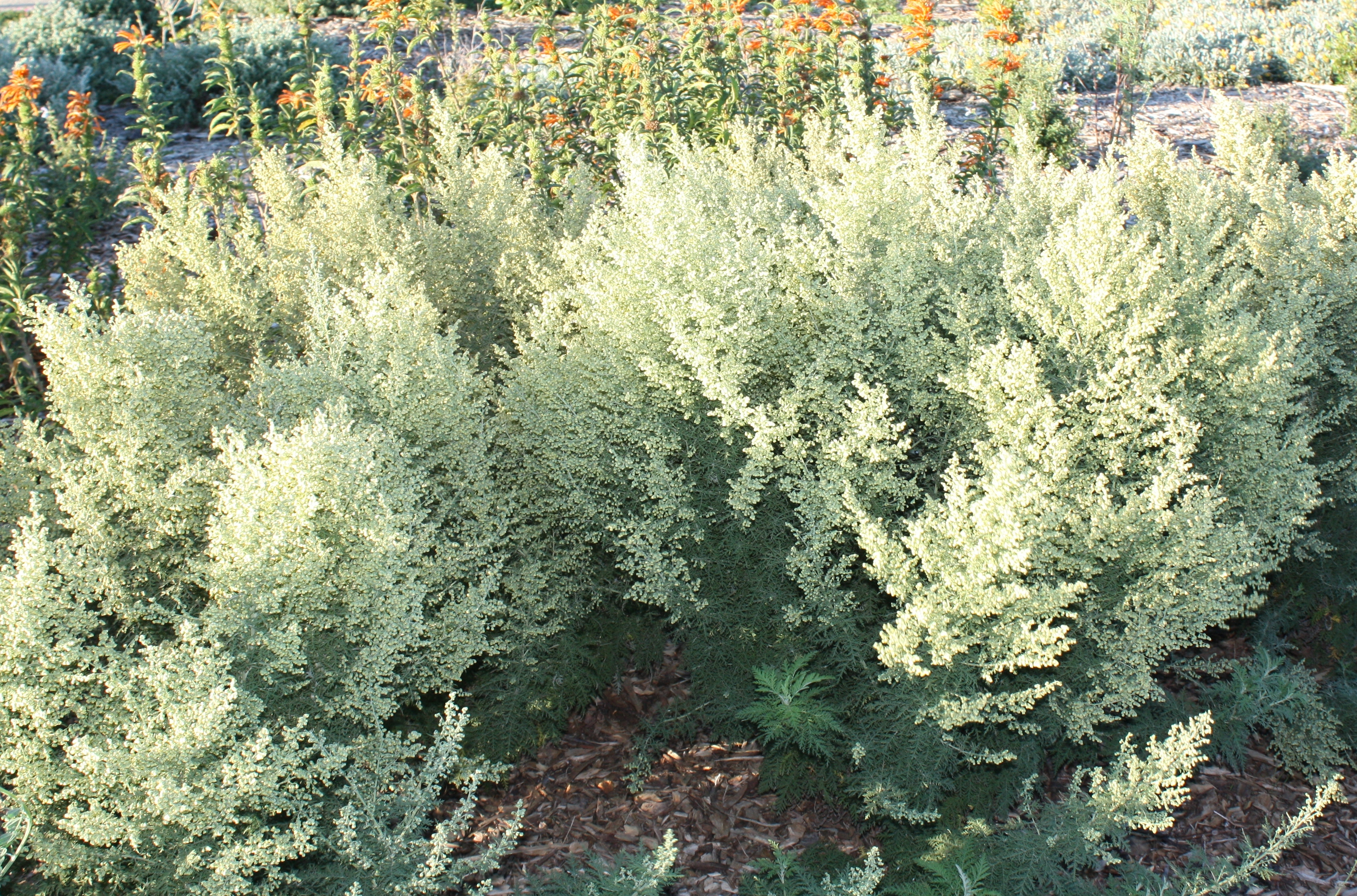 Artemisia afra. Aromatic medicinal herb of South Africa. Wildeals. Cape Town herb garden.